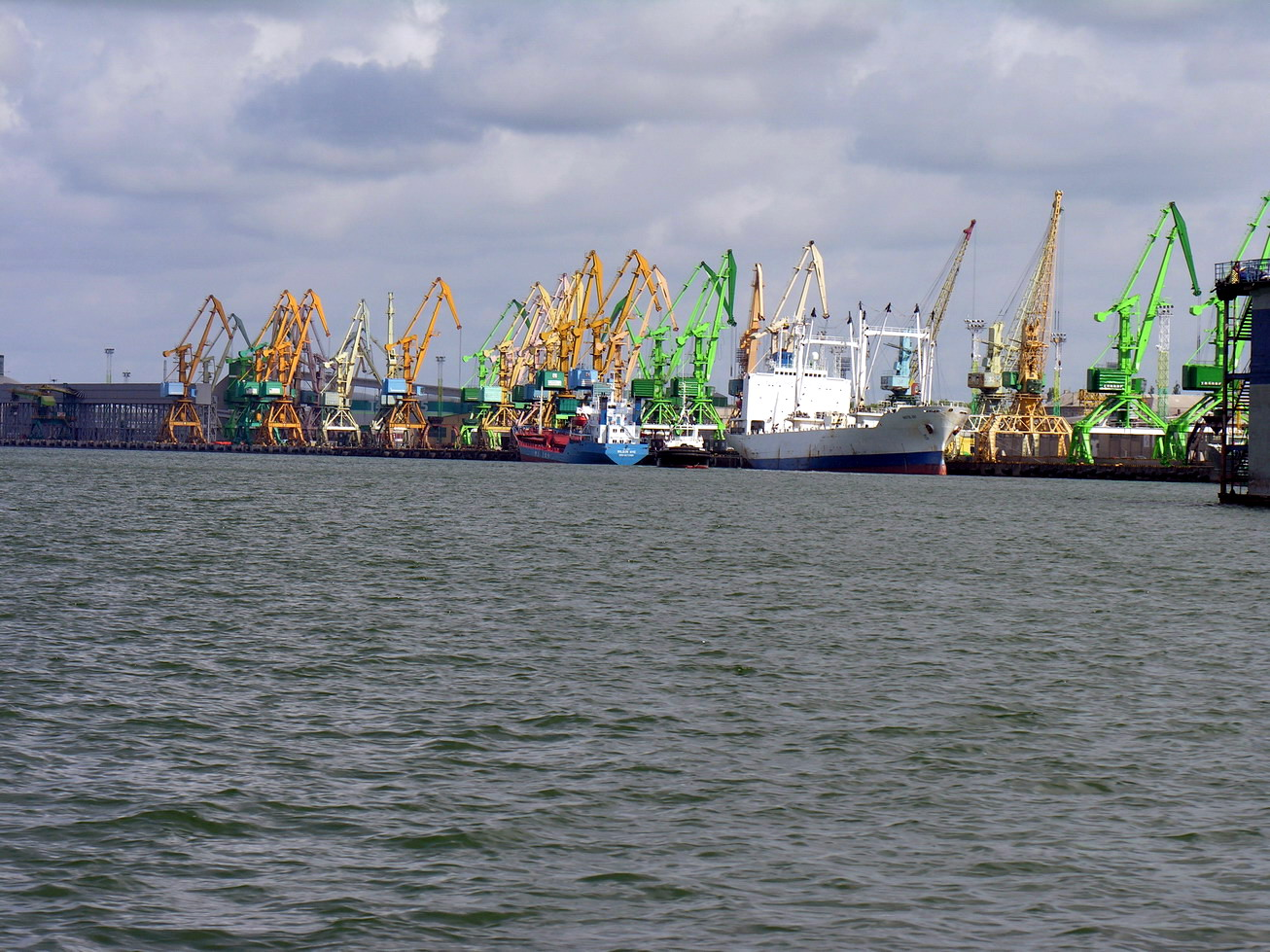 Port of Klaipėda, Lithuania